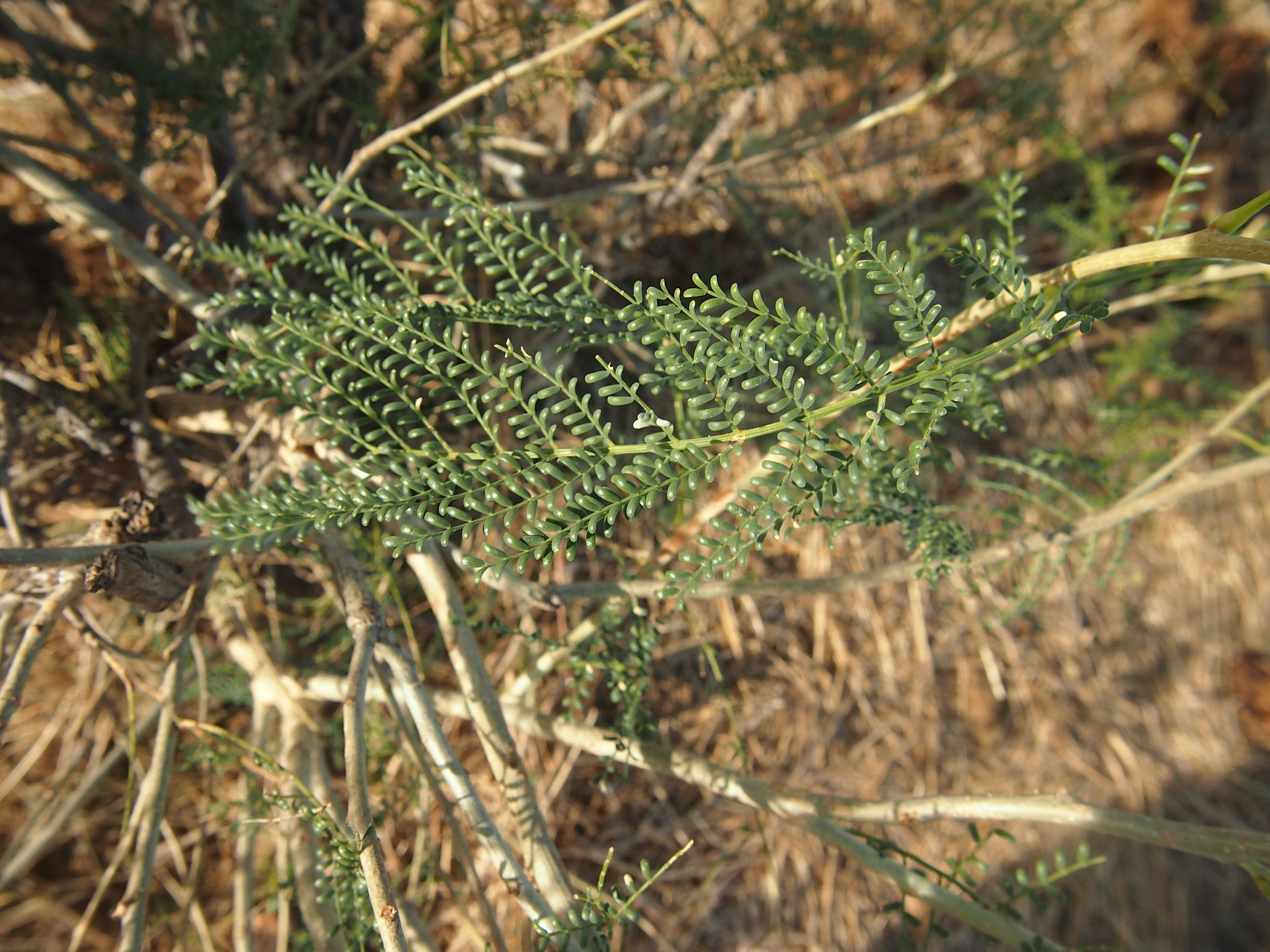 Acacia sutherlandii leaves